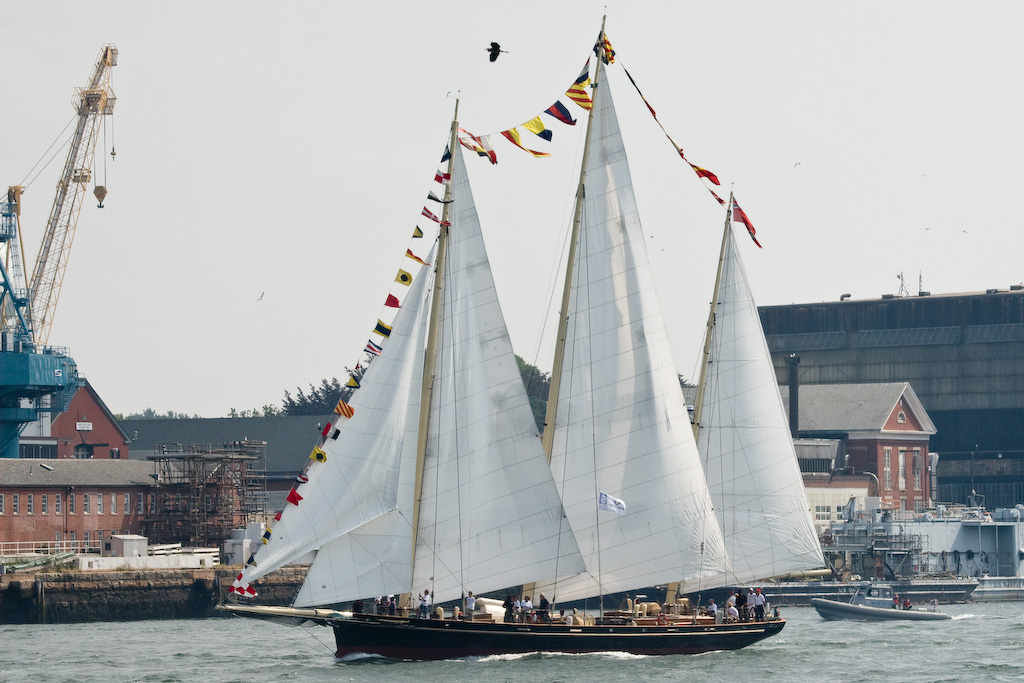 Spirit of Bermuda, under the flag of Bermuda ([1])